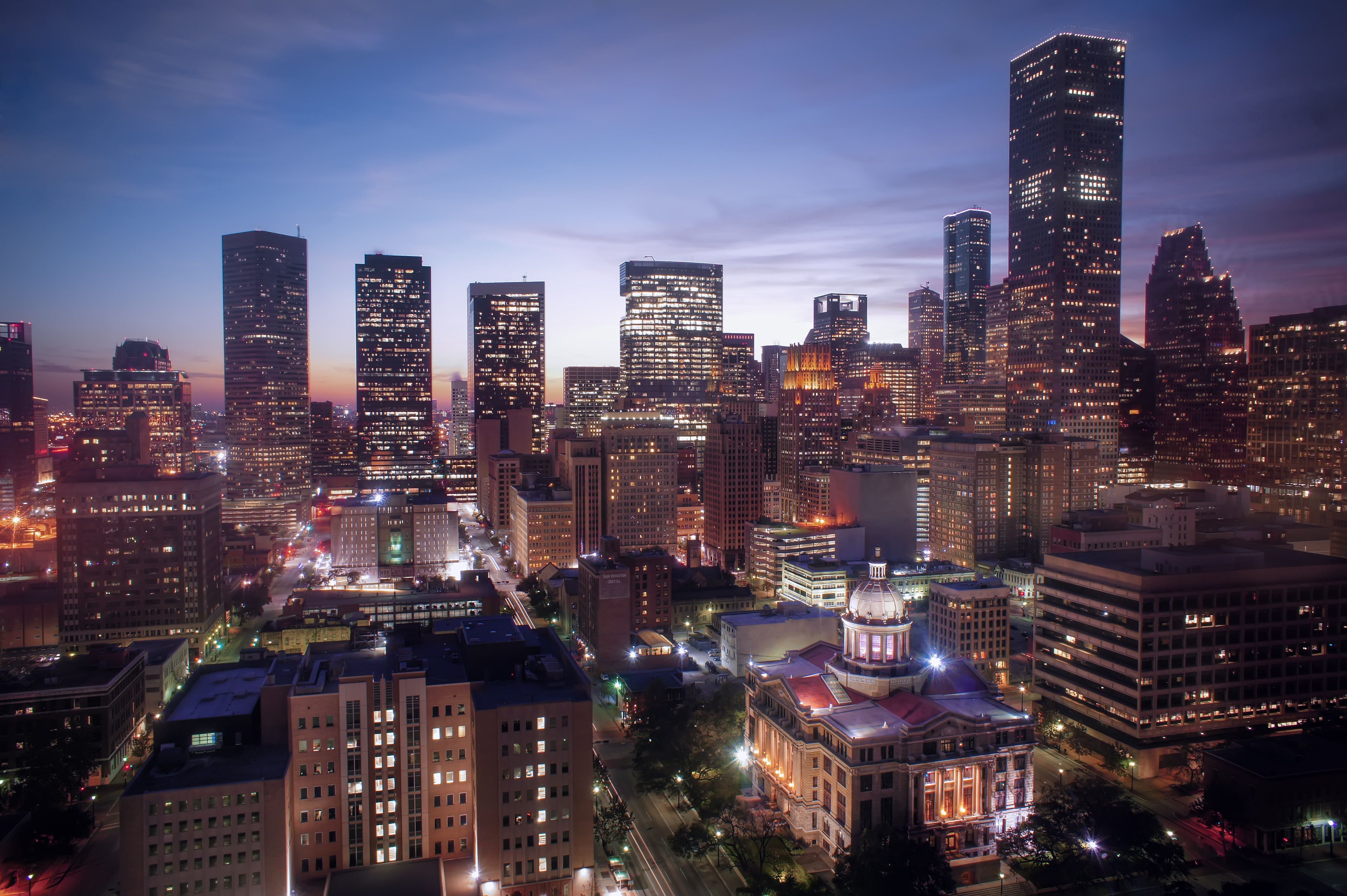 Skyline of Houston, Texas, United States.